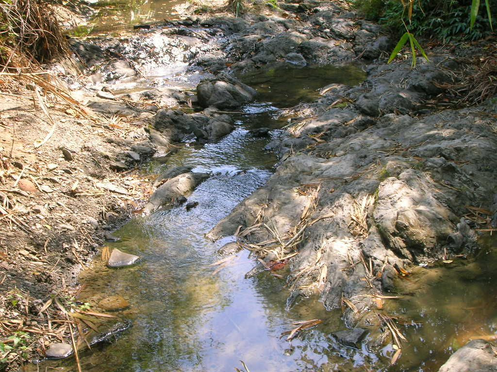 Picture of Sitakunda